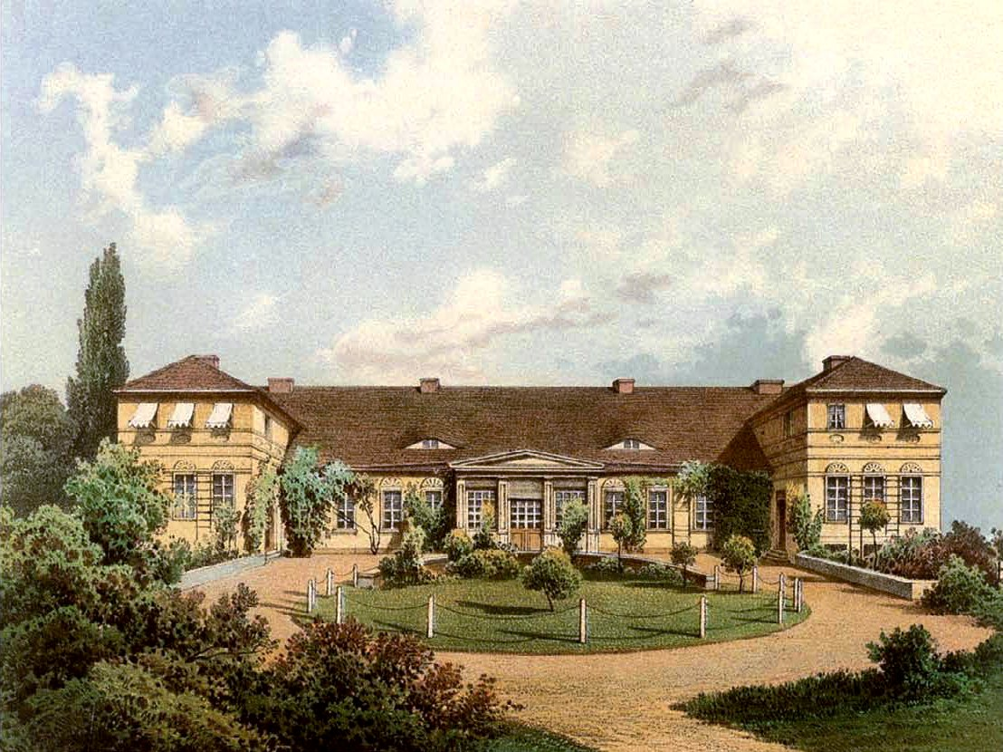 Manor in Mechowo